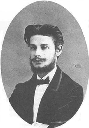 Georg Brandes (1842–1927), born Morris Cohen, was a Danish critic and scholar.